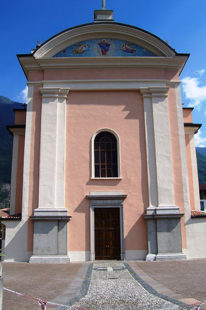 Churh, Montecchio, Valle Camonica